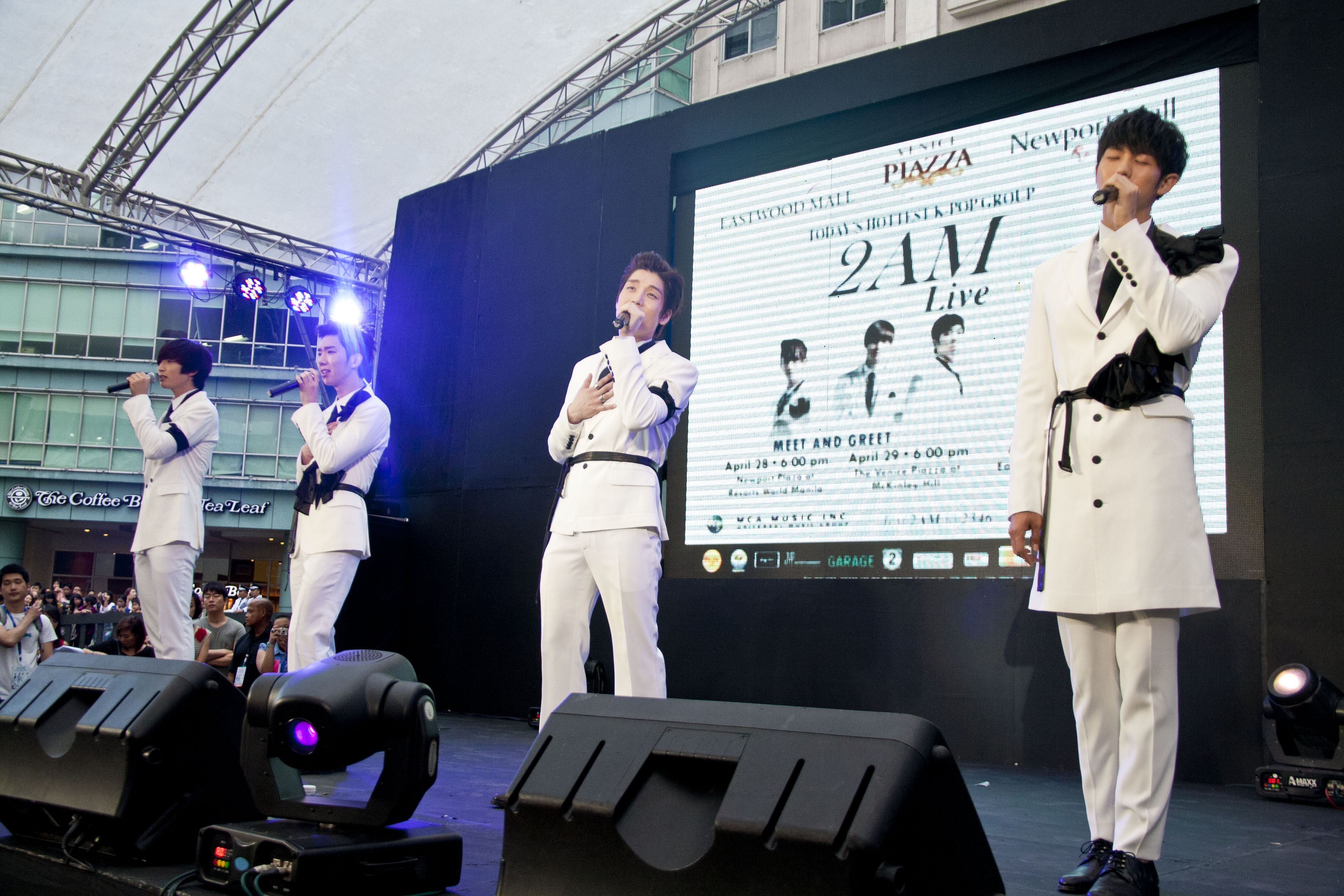 2AM in Manila from Apr. 28-30, 2011